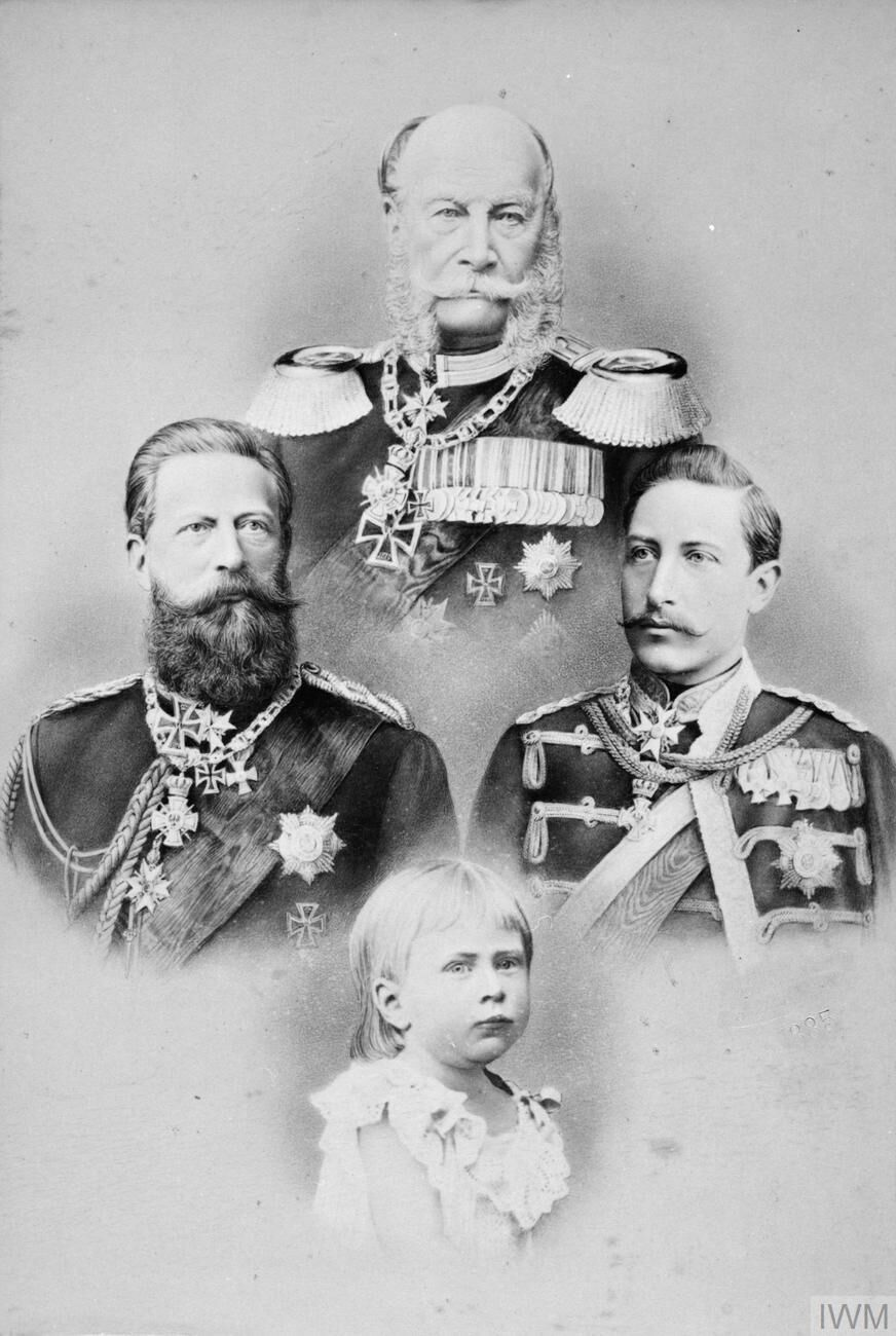 Germany Before the First World War 1890 - 1914 Composite photograph featuring the portraits of the first German Emperor and his heirs produced in 1885. Top: Kaiser Wilhelm I (reigned over united Germany 1871 - 1888); centre left: Kaiser Friedrich III (reigned March - June 1888); centre right: Kaiser Wilhelm II (reigned 1888 until his abdication in 1918); bottom: the infant Crown Prince Wilhelm.